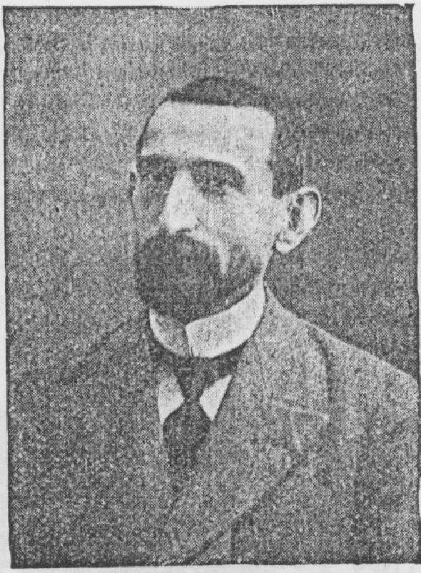 Romanian science fiction writer